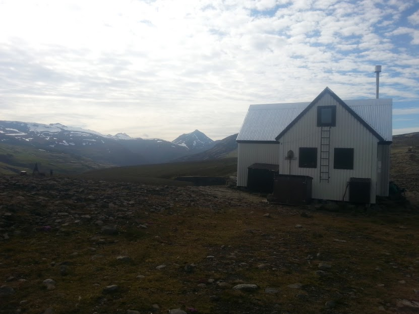 Cabin